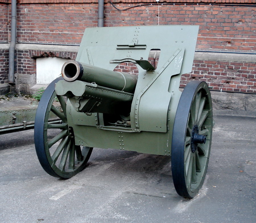 This is (almost certainly) a Soviet 122 mm howitzer Model 1910-1930, displayed in Helsinki Military Museum. The Model 1910 howitzer was based on a French Schneider design. They were produced in Imperial Russia and then in the Soviet Union. As was typical for most World War I artillery pieces, the gun was modernised from 1930 onwards, the resulting guns called Model 10-30. One part of the modernization consisted of the addition of a muzzle brake, which is missing on this particular gun.